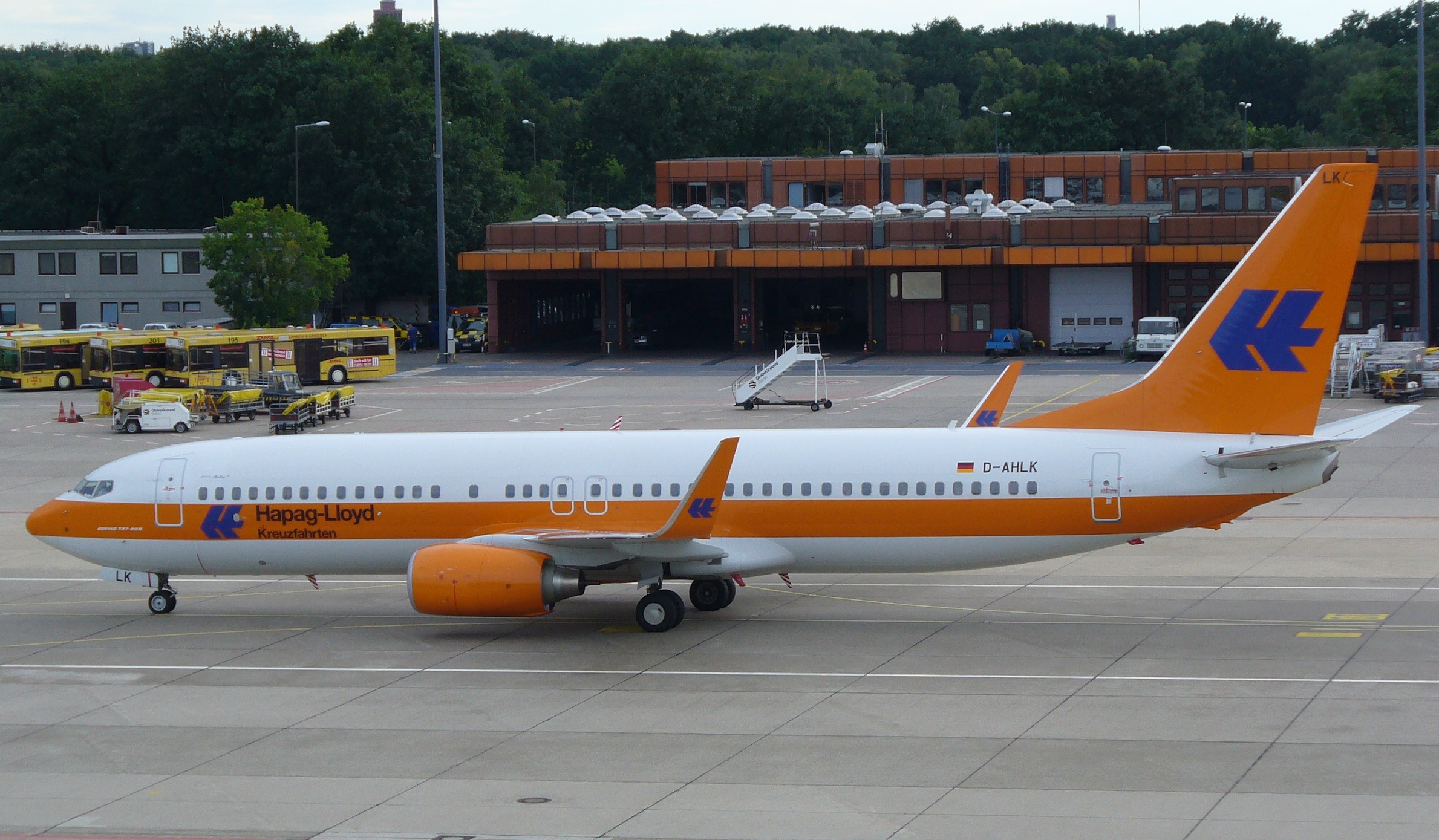 Tuifly Boeing 737-800 at Berlin-Tegel Airport in Hapag Lloyd Flug retro livery